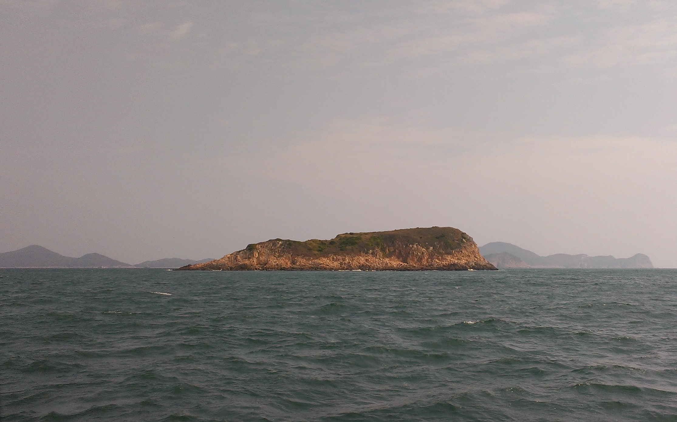 The western side of Ping Min Chau (Table Island) (平面洲)in Port Shelter, Bluff Island and Basalt Island could be seen in background to the right